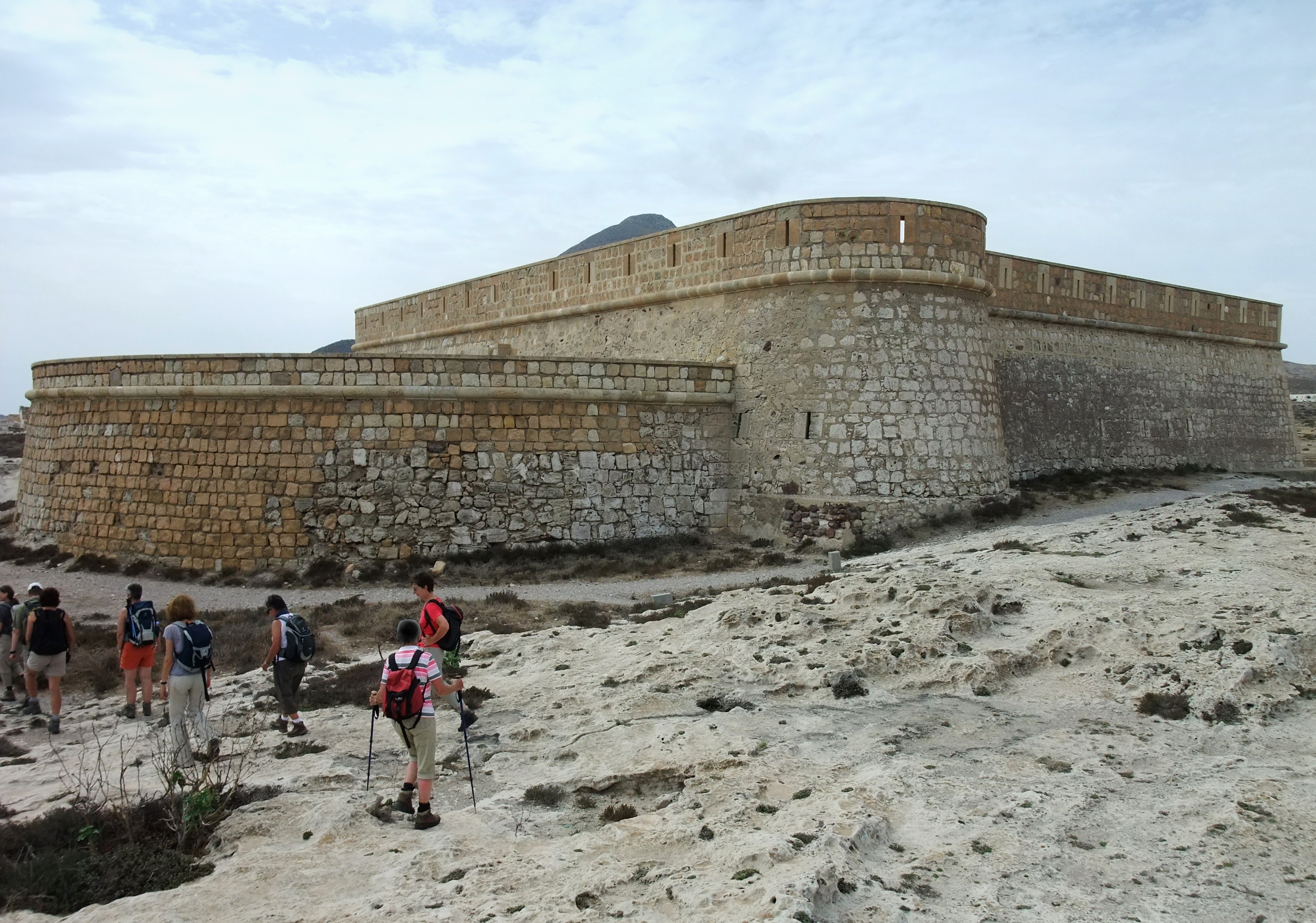 Castillo de San Felipe south of Los Escullos, Province of Almería in Spain